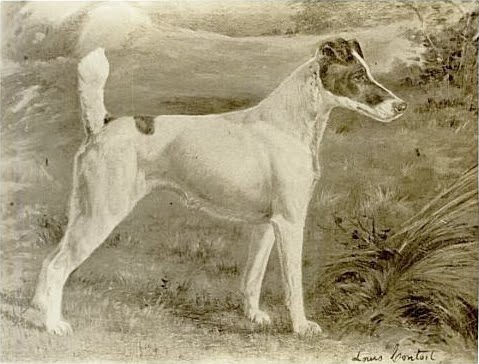 Painting of Warren Remedy, Fox Terrier. First best in show winner at the Westminster Kennel Club Dog show, and the only dog to have won that prize on three occasions. Artist is Gustav Muss-Arnolt, who died in 1927.